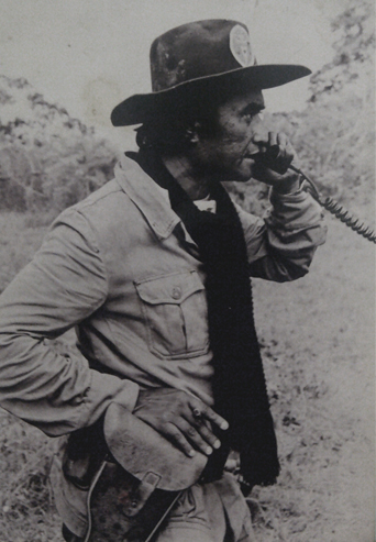 Dading Kalbuadi making a call in East Timor